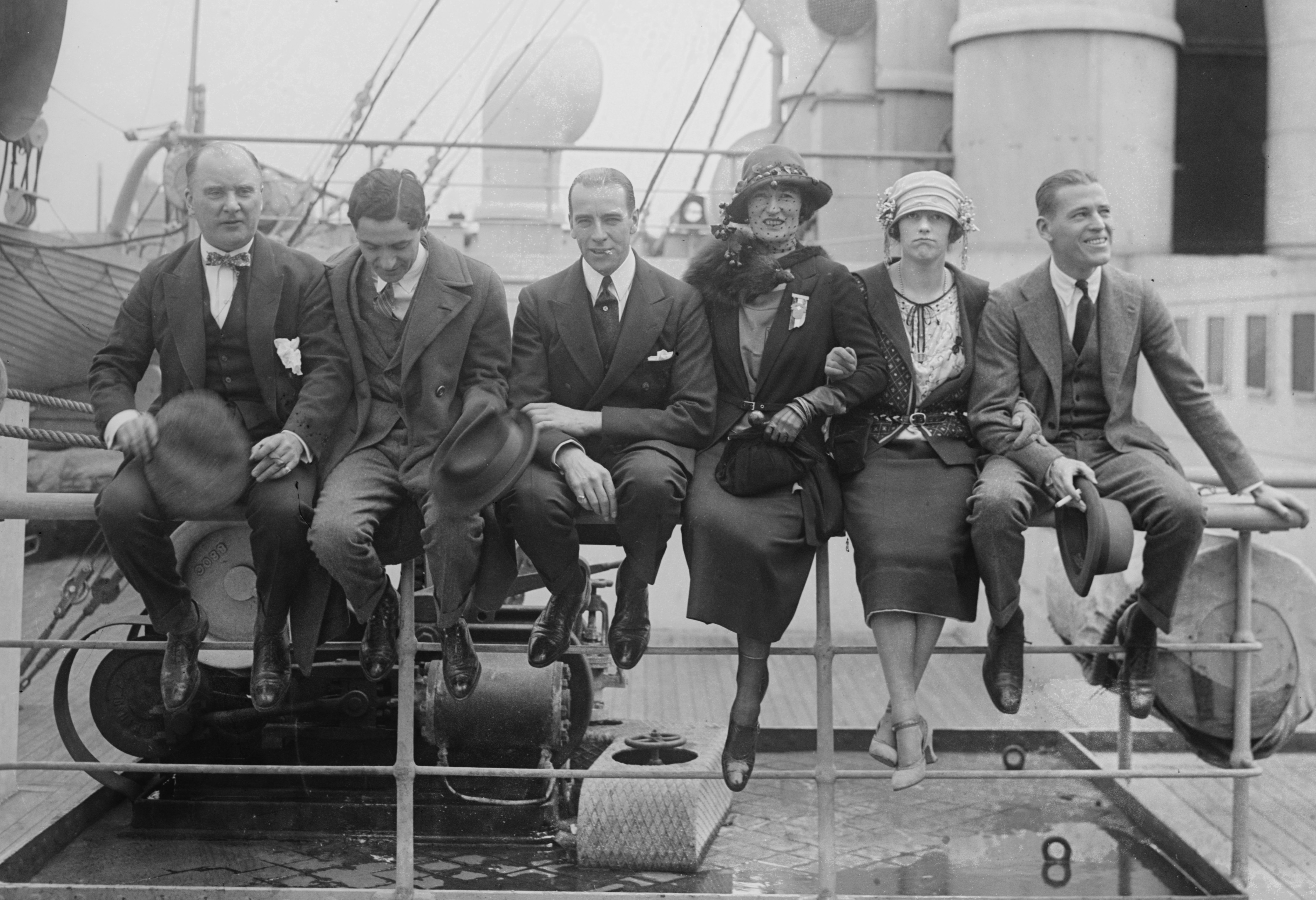 From left to right: actor Arnold Daly, songwriter Irving Berlin, aviator Claude Grahame-White, his wife, actress Ethel Levey, Levey's daughter actress Georgette Cohan, and her husband J. William Souther, a businessman, in 1921